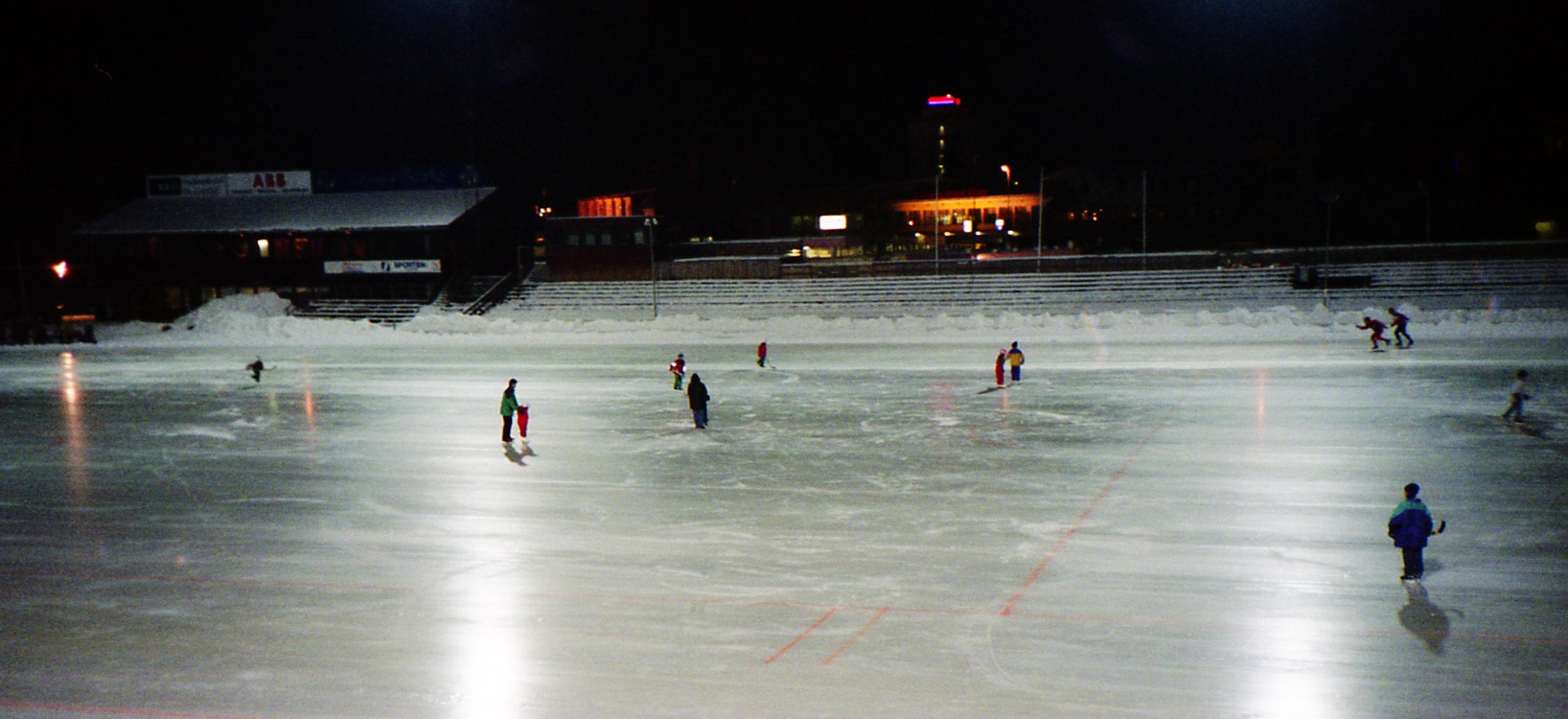 Hamar Stadion, Hamar, Hedmark, Norway in the February evening